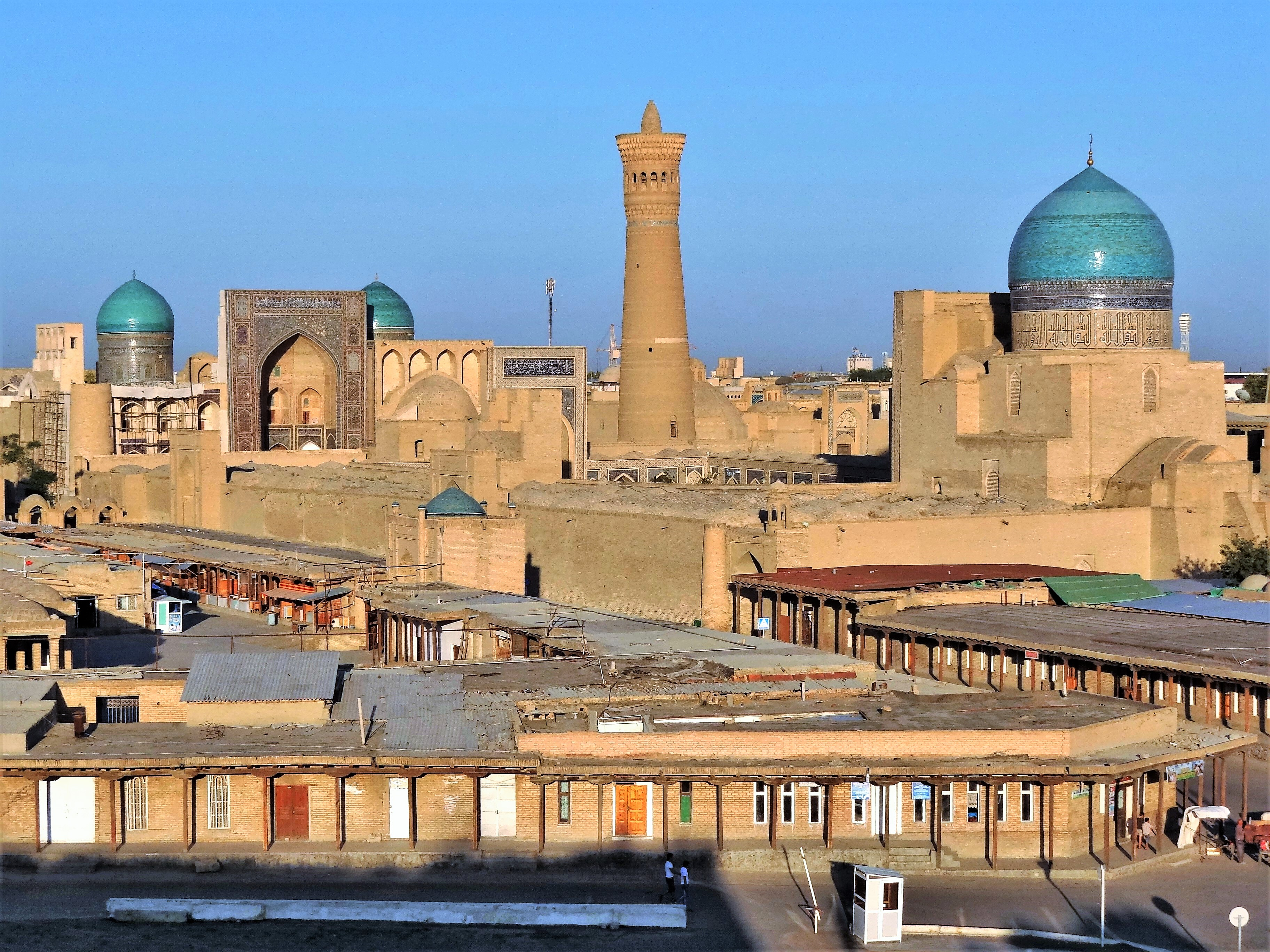 View over the Old City at Sunset - From The Ark (Original Settlement) - Bukhara - Uzbekistan